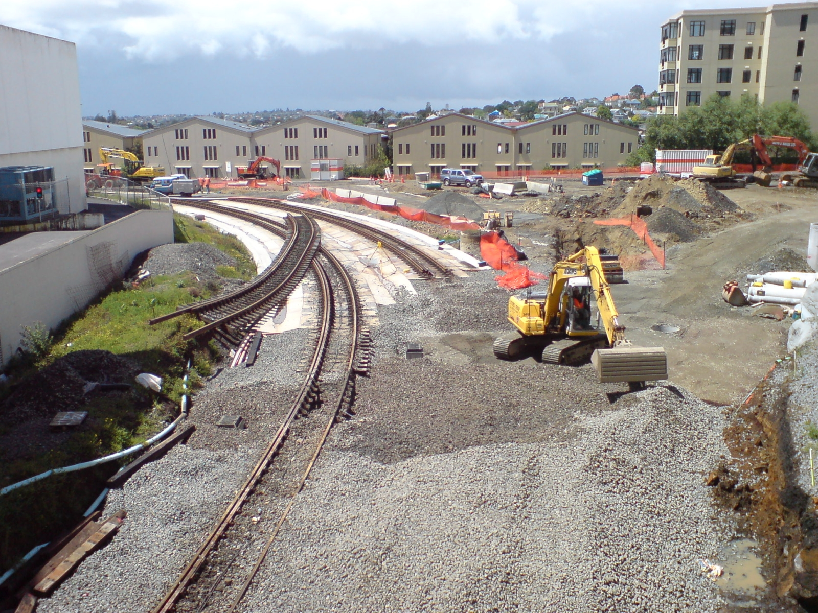 Work on the rail triangle just north of Newmarket Train Station in Auckland City, New Zealand.